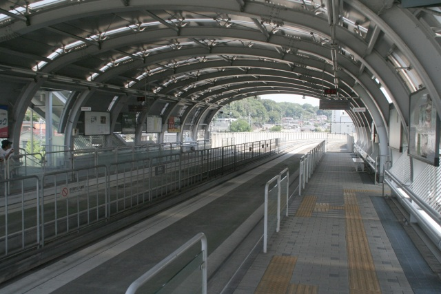 The platforms of Obata-Ryokuchi Station 小幡緑地駅構内